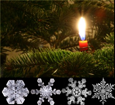 En: Christmas candle on a Christmas tree. *Da: Juletræslys Date: 31. december 2005 Description: Schneeflocke von der NASA *Source: German Wikipedia, original upload 24. Sep 2002 by Ben-Zin Description: Schneeflocke von der NASA *Source: German Wikipedia, original upload 24. Sep 2002 by Ben-Zin Detail of Image:SnowflakesWilsonBentley.jpg Snow flakes by Wilson Bentley ; ; Plate XIX of "Studies among the Snow Crystals ... " by Wilson Bentley, "The Snowflake Man." From Annual Summary of the "Monthly Weather Review" for 1902. Bentley was a bachelor farmer whose hobby was photographing snow flakes. ; Image ID: wea02087, Historic NWS Collection ; Location: Jericho, Vermont ; Photo Date: 1902 Winter Detail of Image:SnowflakesWilsonBentley.jpg Snow flakes by Wilson Bentley ; ; Plate XIX of "Studies among the Snow Crystals ... " by Wilson Bentley, "The Snowflake Man." From Annual Summary of the "Monthly Weather Review" for 1902. Bentley was a bachelor farmer whose hobby was photographing snow flakes. ; Image ID: wea02087, Historic NWS Collection ; Location: Jericho, Vermont ; Photo Date: 1902 Winter